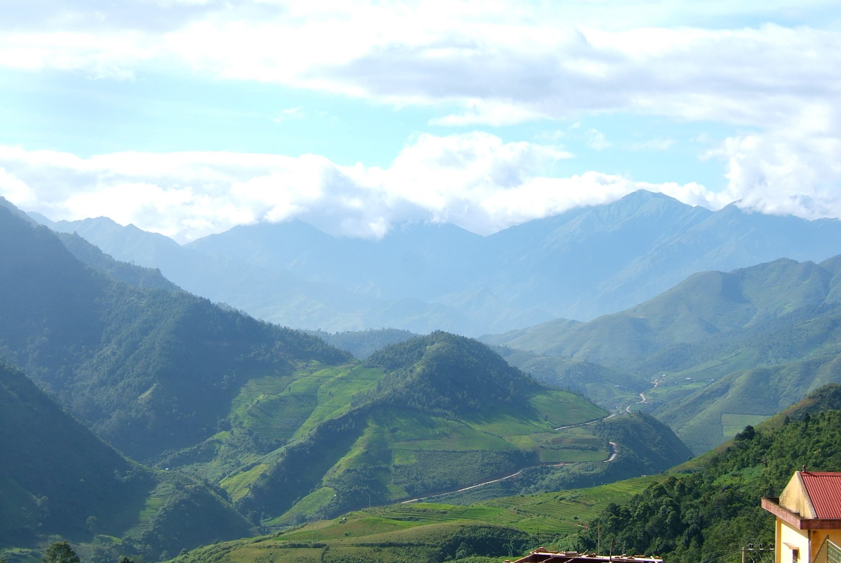 Tram Tau District, Yen Bai Province, Vietnam